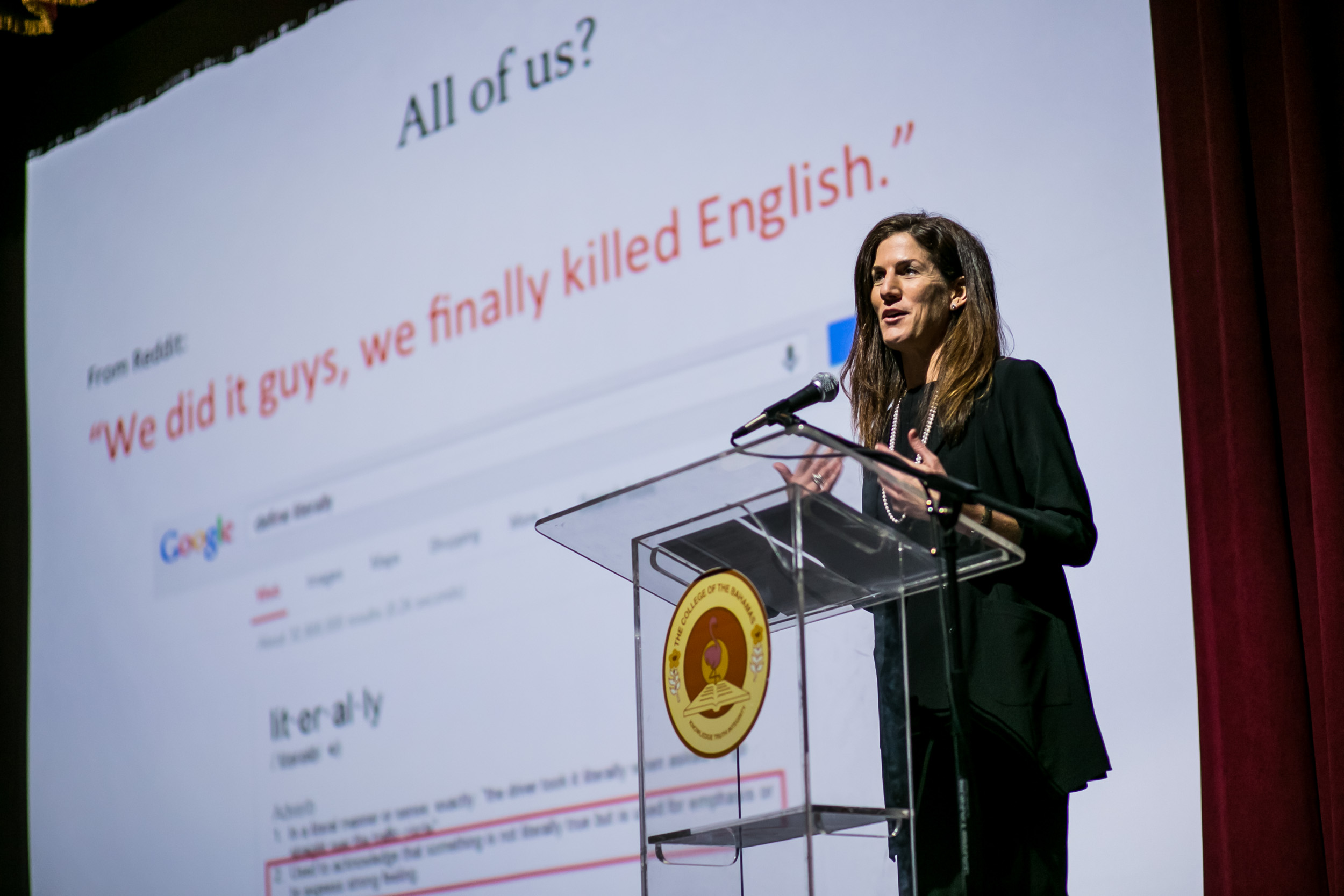 Anne Curzan, Anatol Rodgers Lecture Series. Slide reads: We did it guys, we finally killed English. Literally.